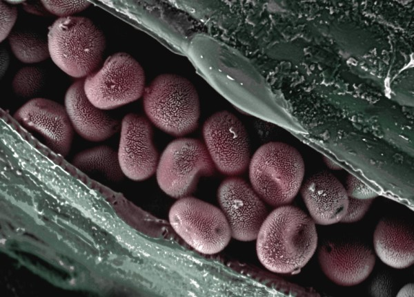 Fungal spores in lemon grass leaf, Electroscan ESEM E3, 6.0kV ESD x855 WD=6.4mm P=2.7torr. Coloured in Photoshop